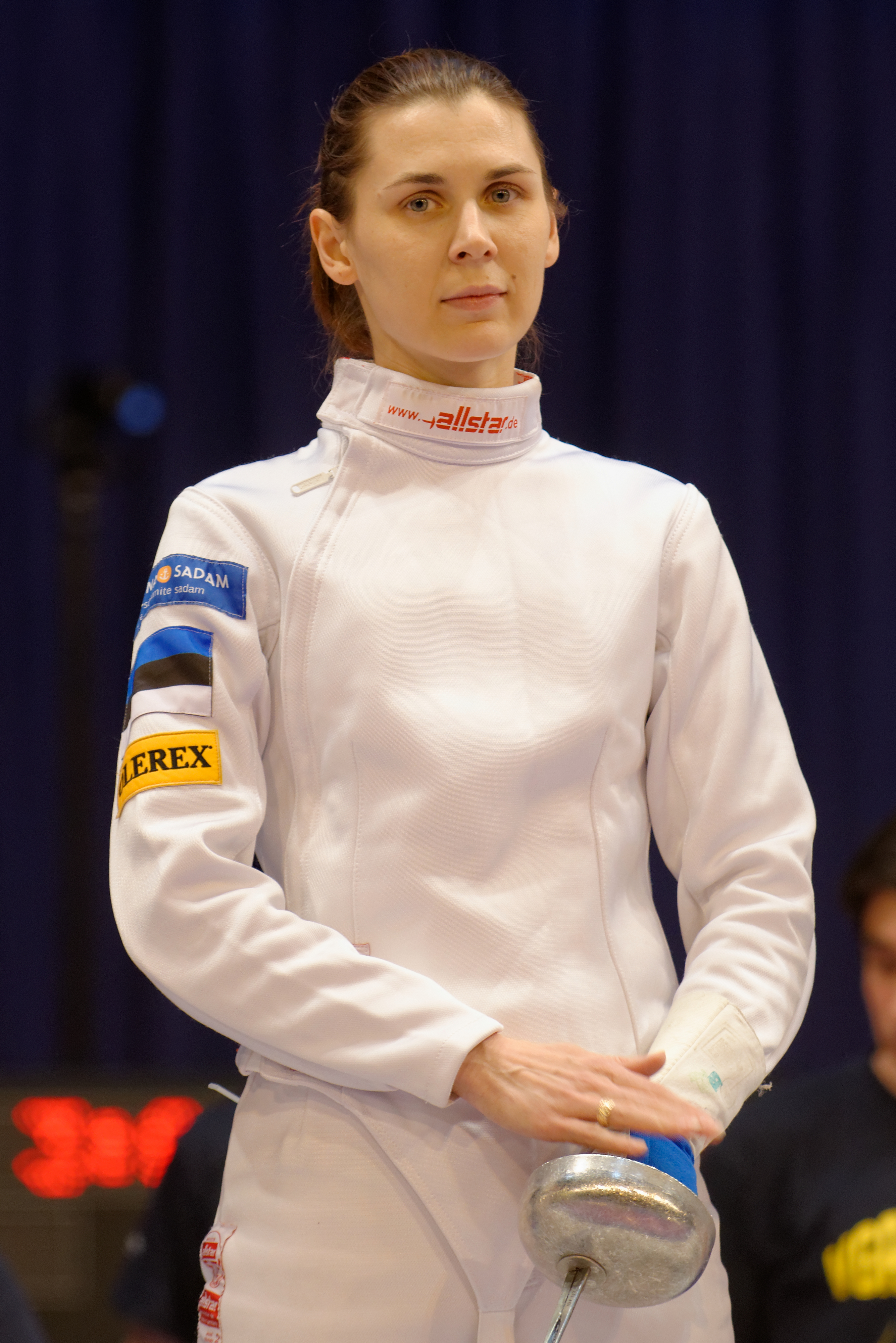 Irina Embrich at the Challenge international de Saint-Maur 2013, women's épée World Cup tournament.